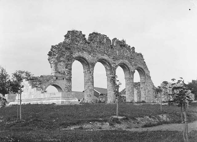 Photographer: The cathedral ruins in Hamar.